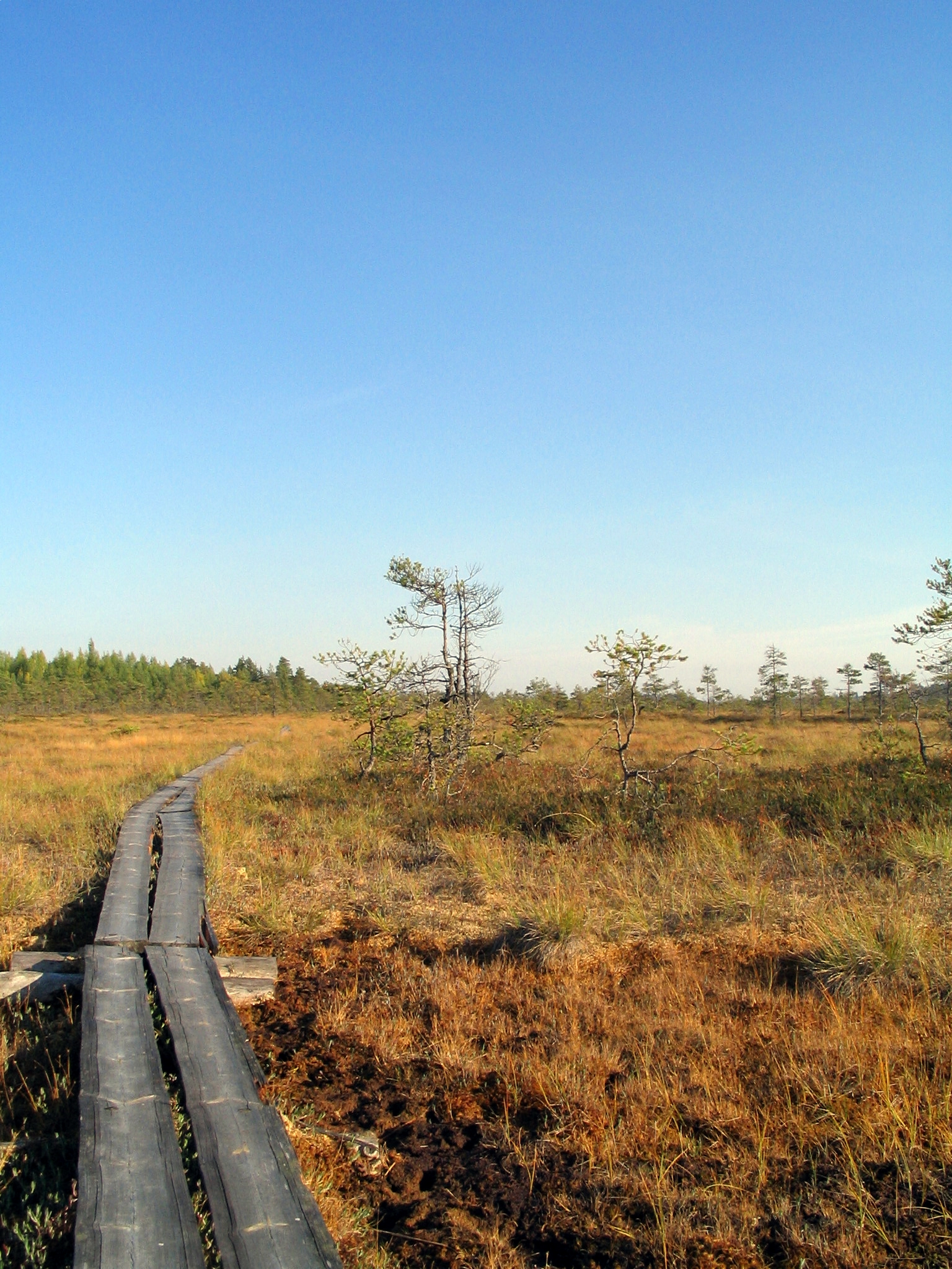 Valkmusa walking trail